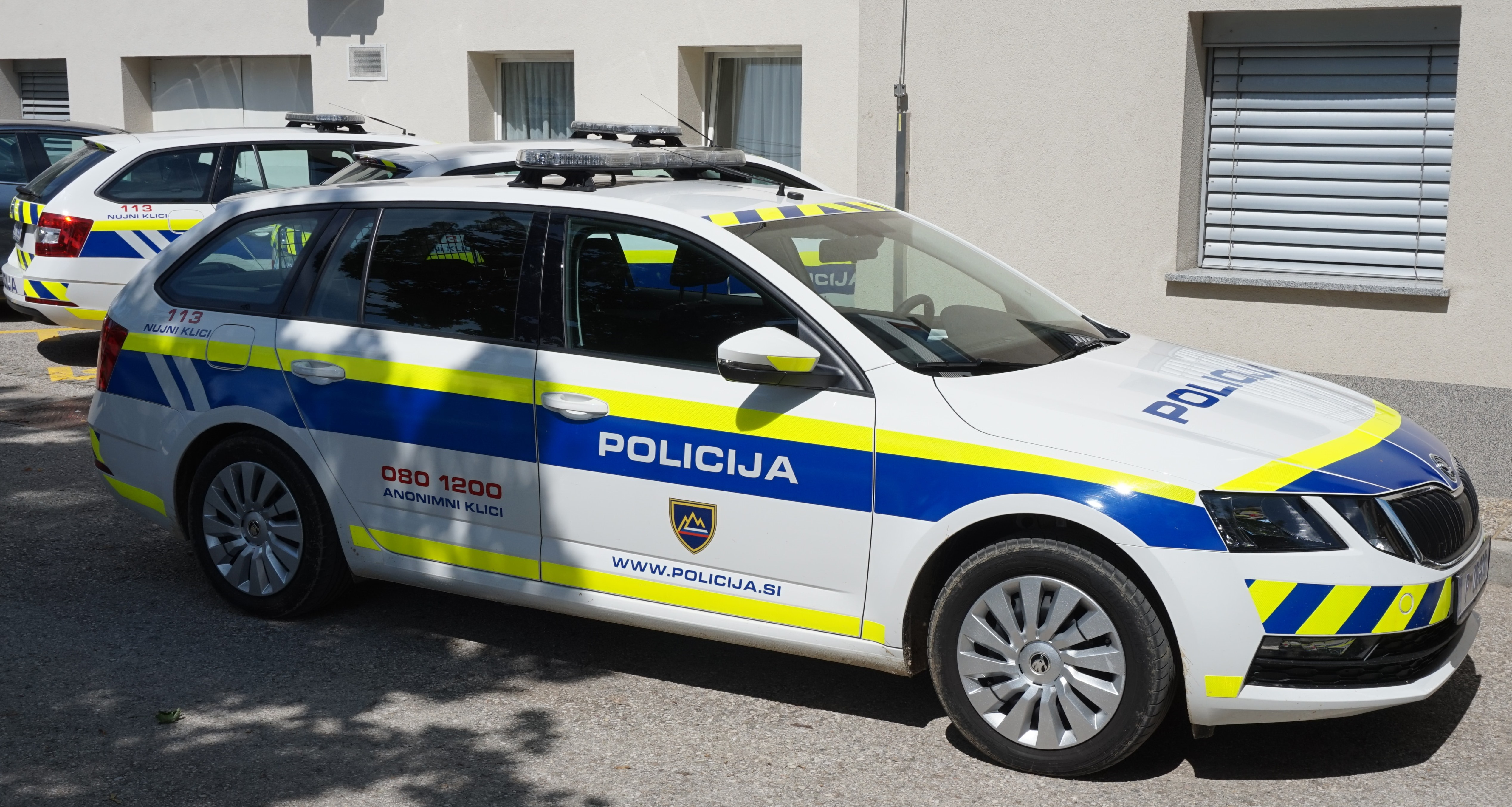 Slovenian police car Škoda Octavia III (2017 facelift)